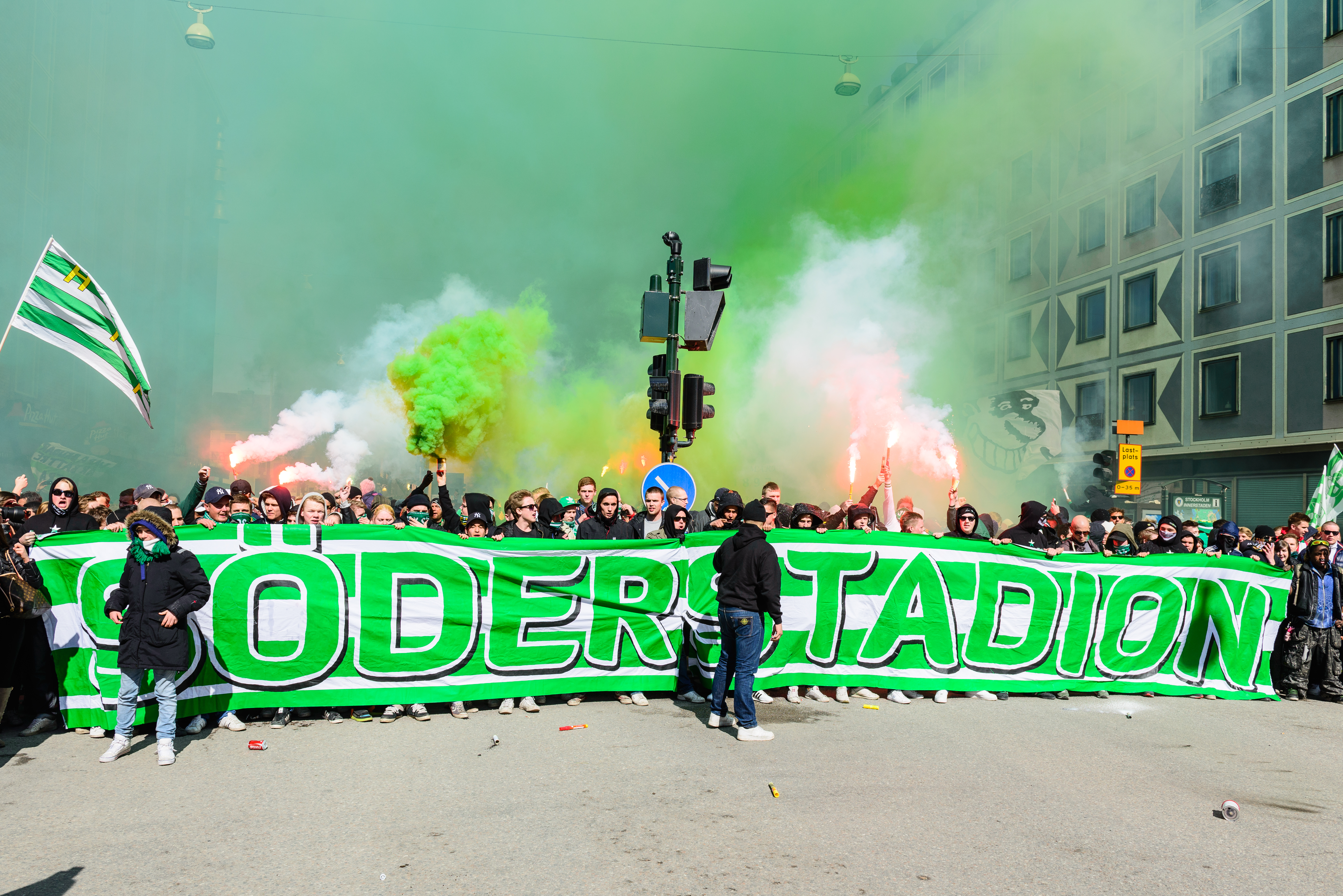 Hammarby supporters during supportermarchen, the tradionella walk from central Södermalm to the team's home stadium, Söderstadion , before the season's first home game.